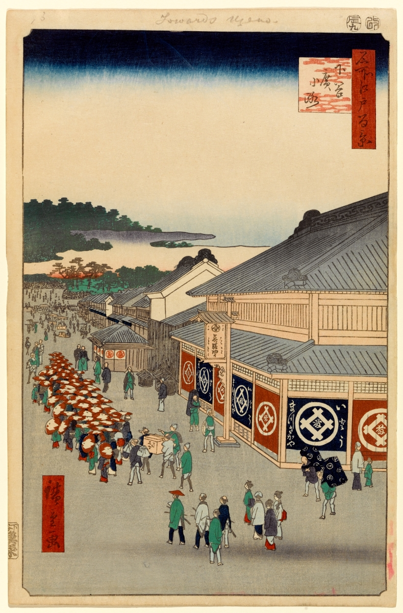 Part of the series One Hundred Famous Views of Edo, no. 013, part 1: Spring.